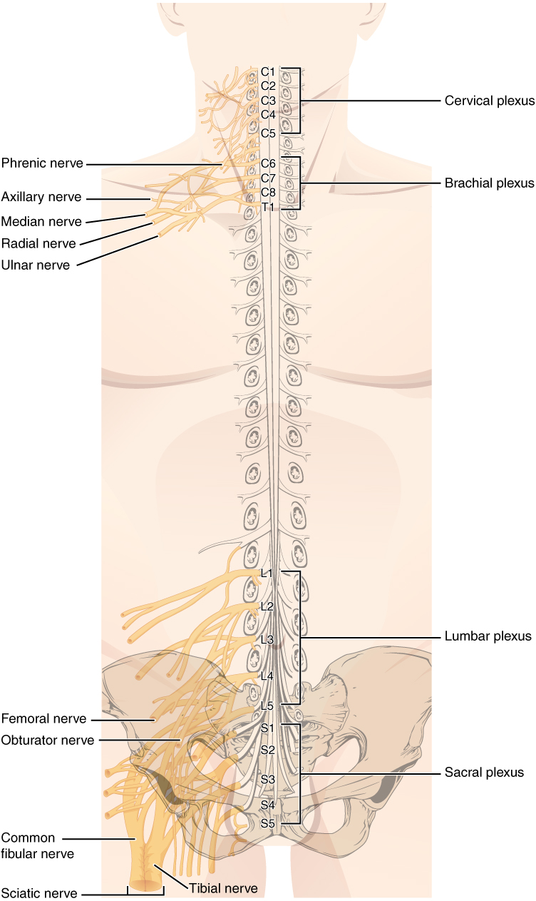 Version 8.25 from the Textbook OpenStax Anatomy and Physiology Published May 18, 2016